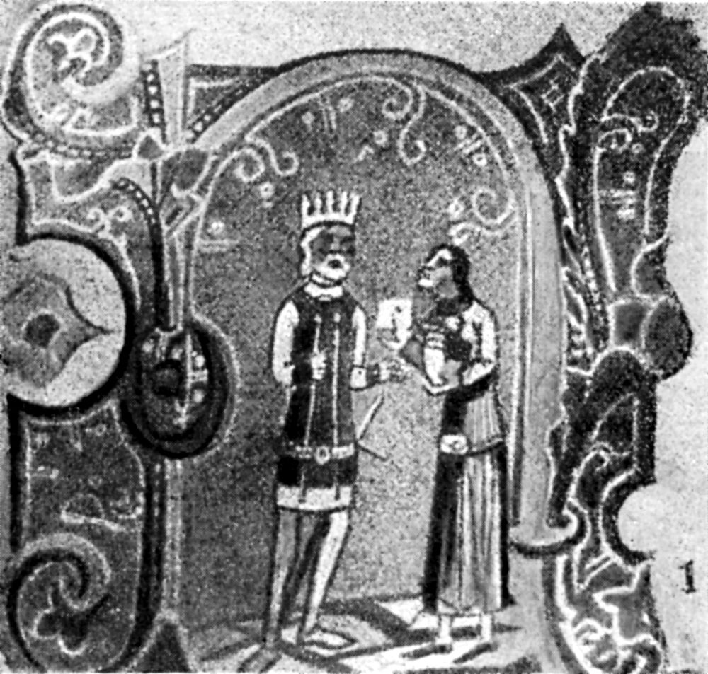 A miniature from Chronicon Pictum, depicting a wallachian messenger and king Carl Robert